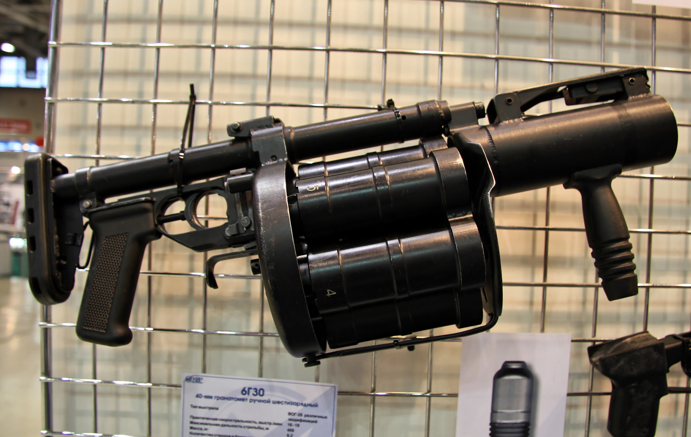 RG-6 or 6G30 in Interpolitex-2011Tiếng Việt: RG-6 hay 6G30 tại Interpolitex-2011